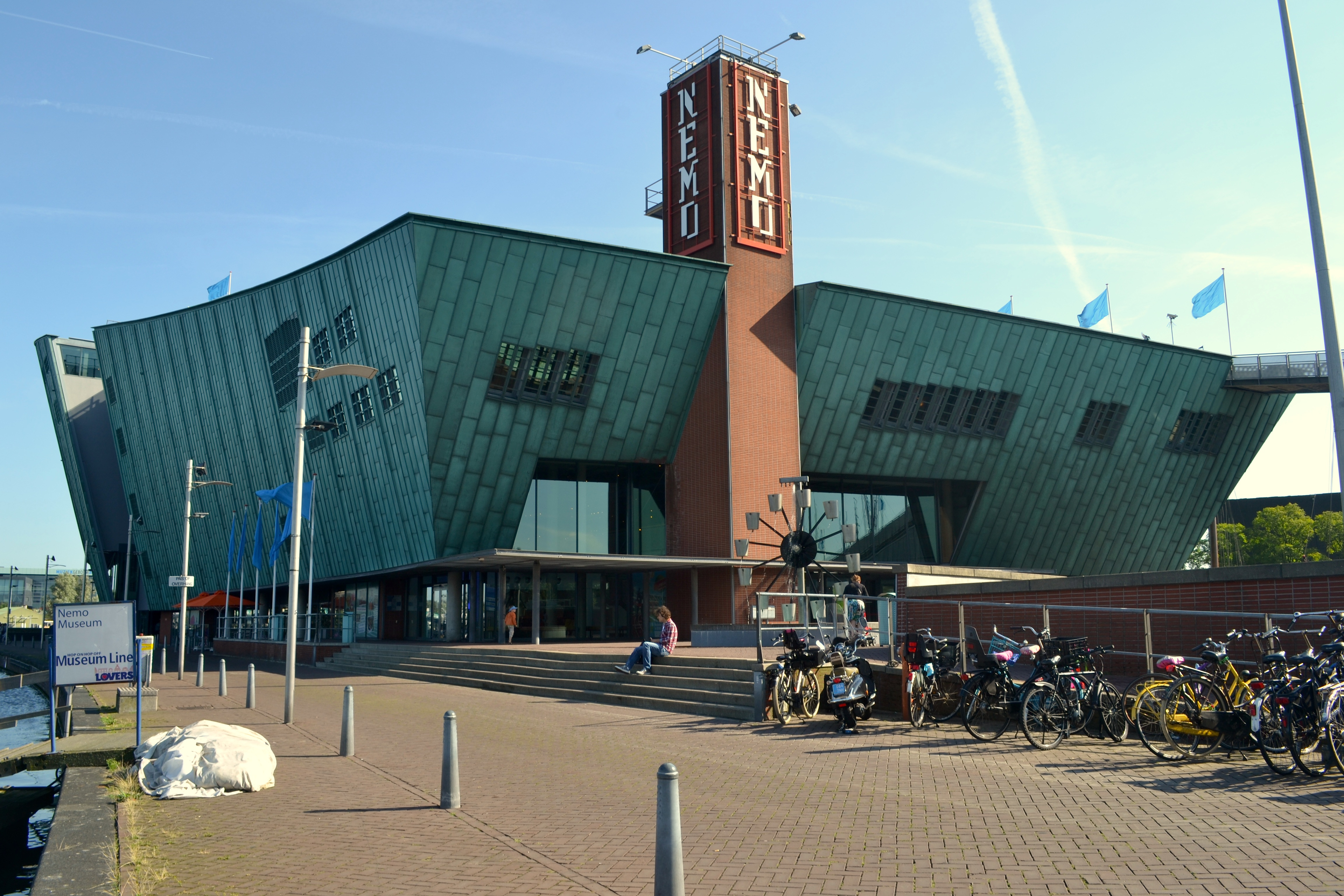 Nemo museum building entrance and public square. Amsterdam. Designed by architect Renzo Piano.